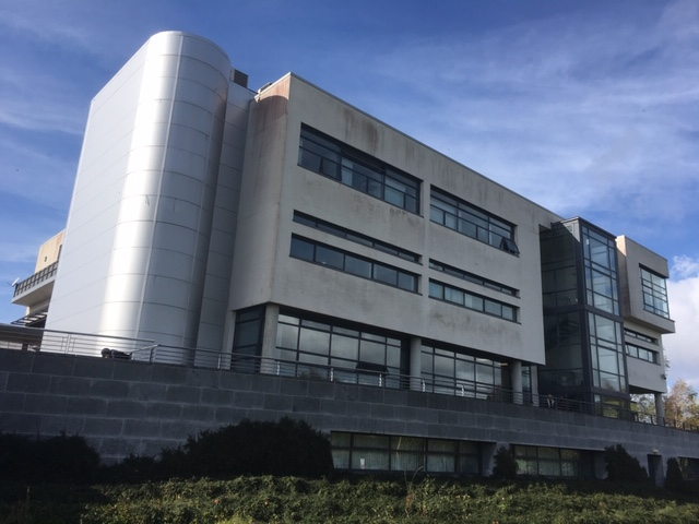 This is a photo of the School of Computer Science building at the National University of Ireland, Galway